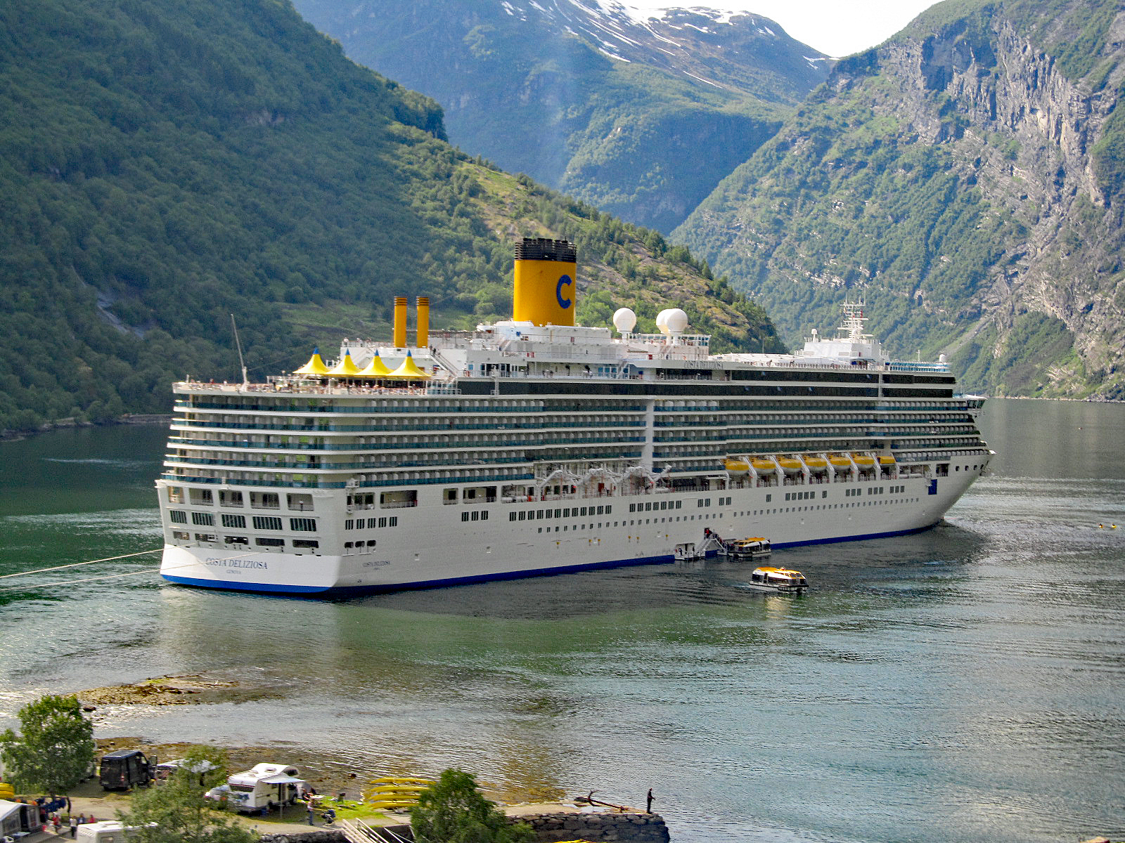 Geiranger, Norway, onboard Costa Deliziosa (77)